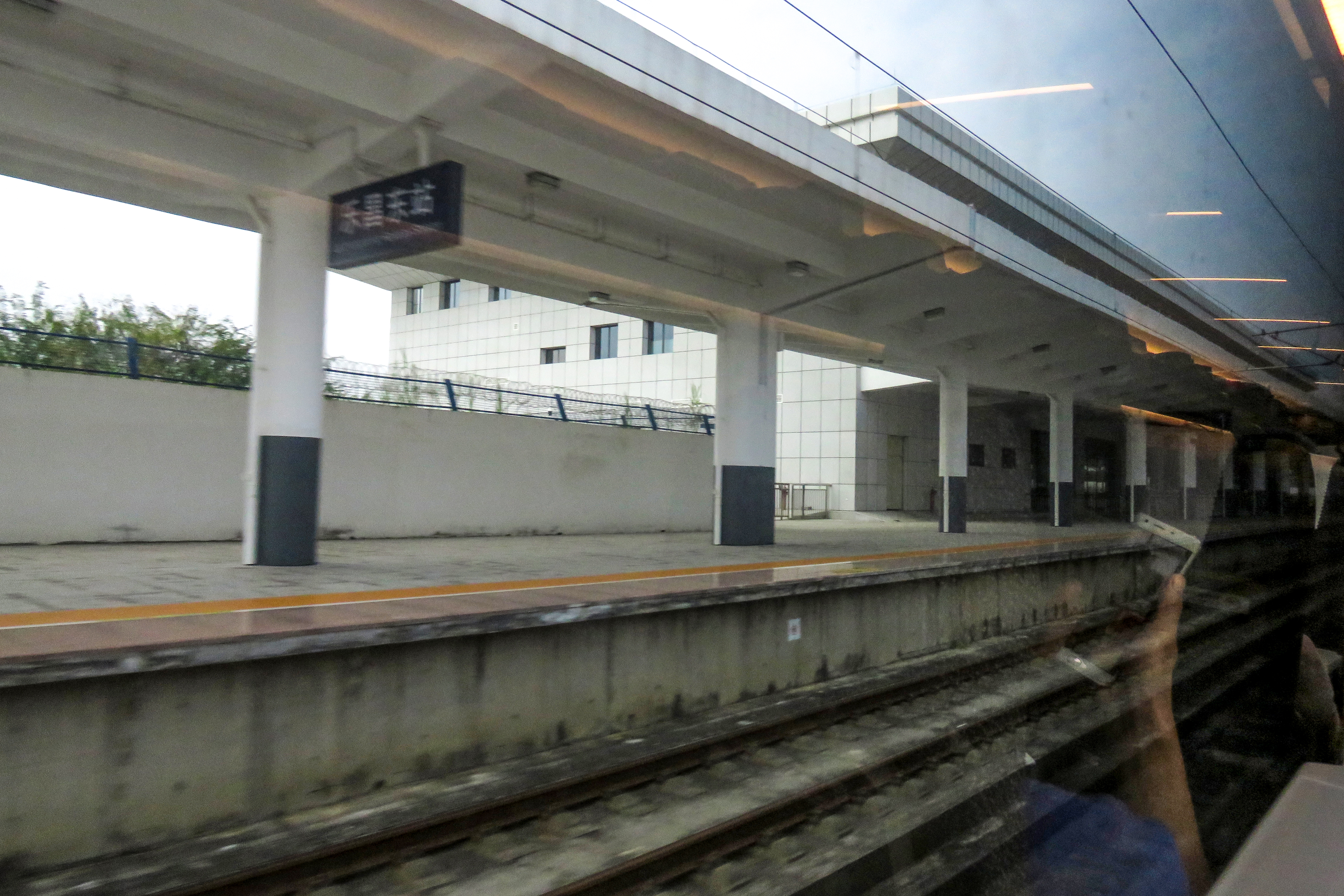 New station on this line.